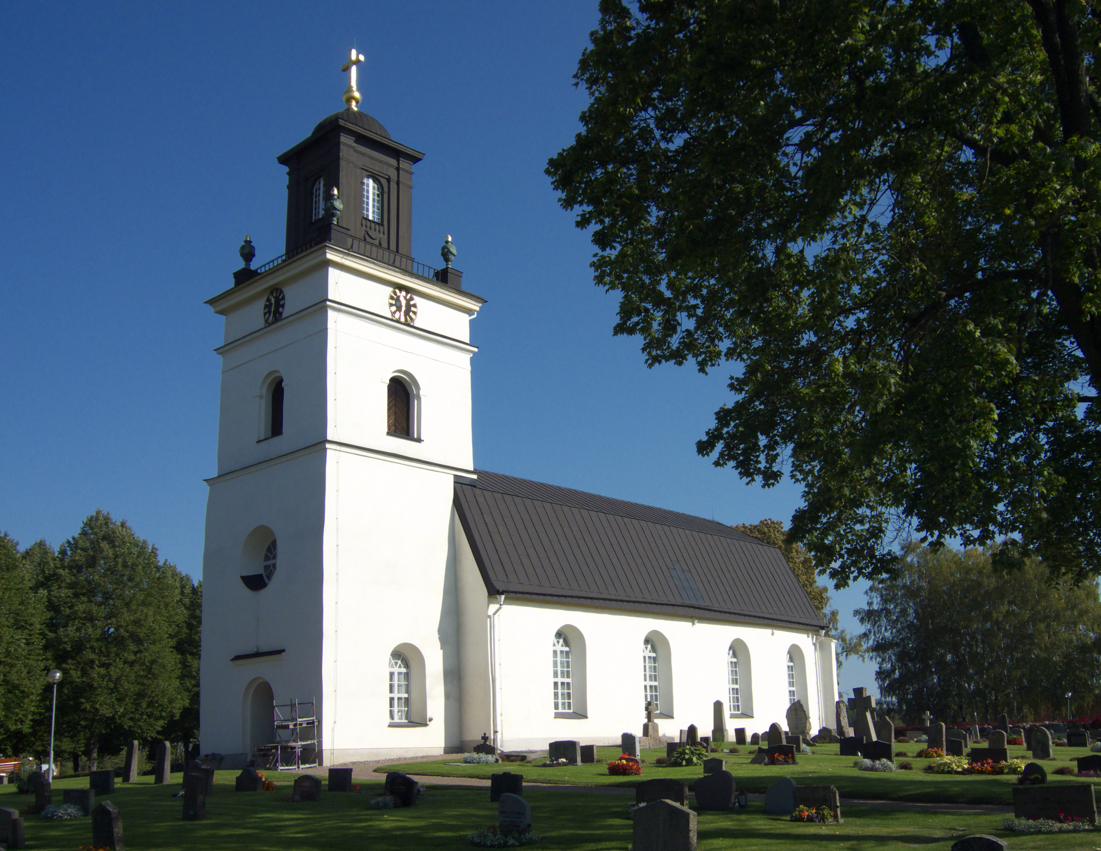 Kolbäck church